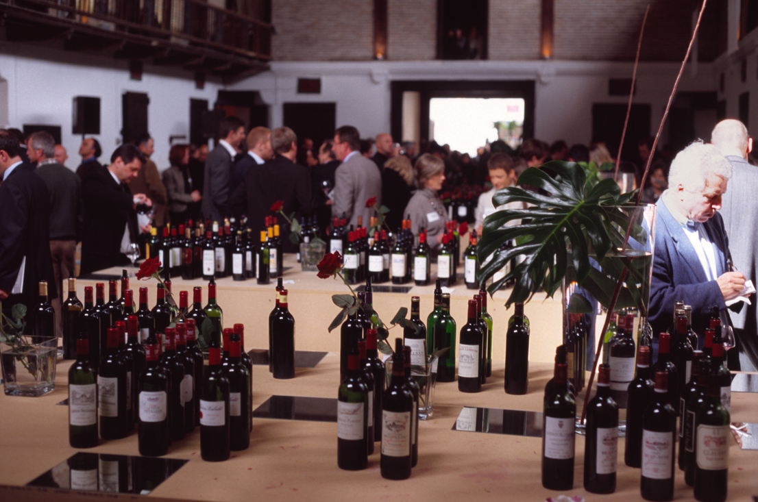 Tasting of Crus Bourgeois Primeurs, Vintage 2007, at Château de Malleret